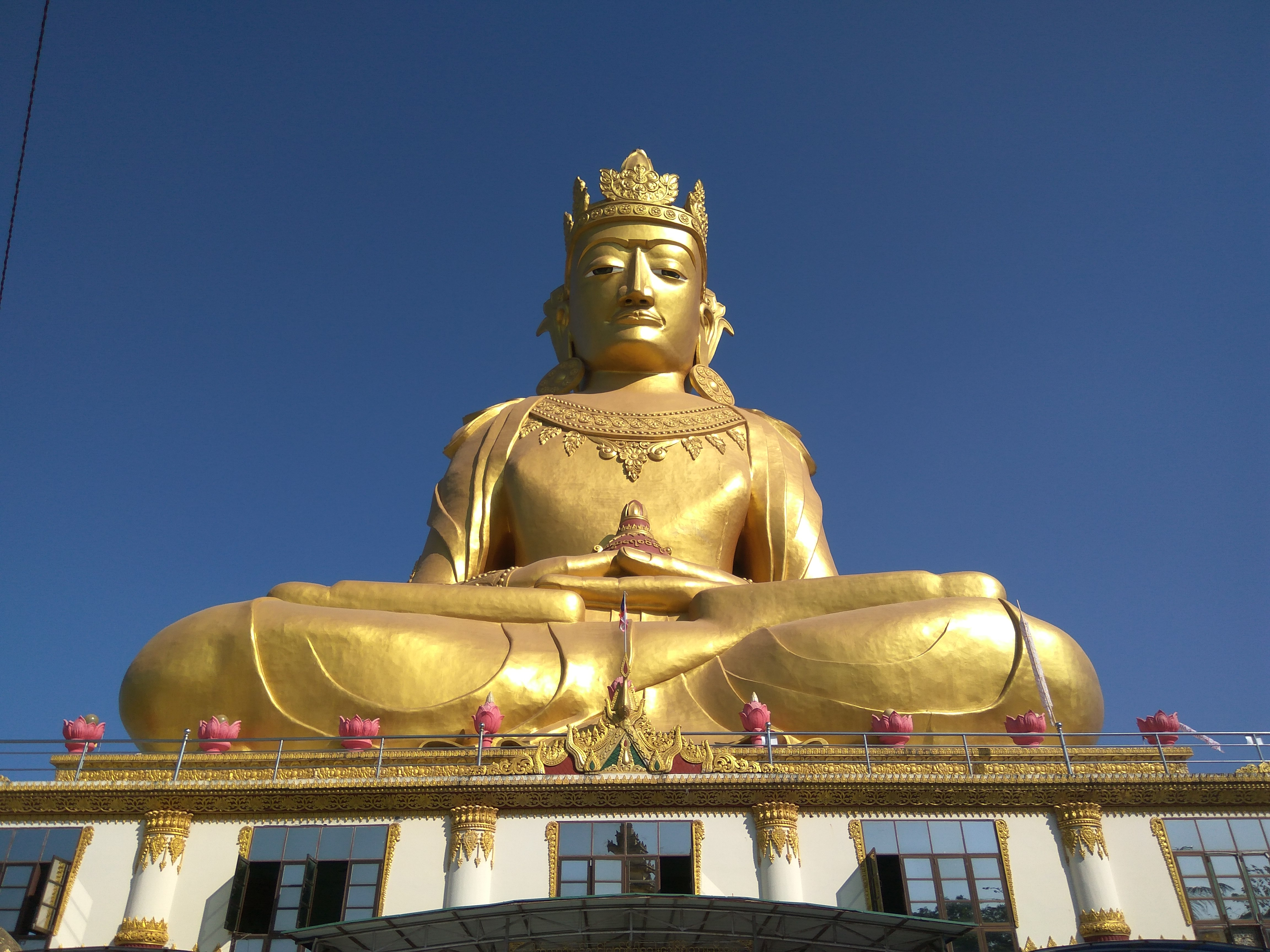 Mahar Kyein Thit Sar Shin Pagoda မြန်မာဘာသာ: မဟာကျိန်သစ္စာရှင်ဘုရား။ ရန်ကုန်မြို့တွင် တည်ရှိသည်။